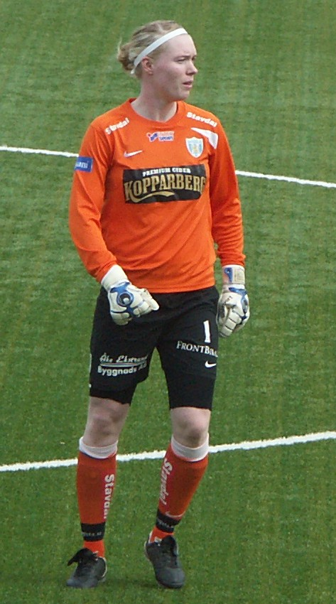 Hedvig Lindahl, Swedish goalkeeper, playing for Kopparbergs/Göteborg FC since 2009.